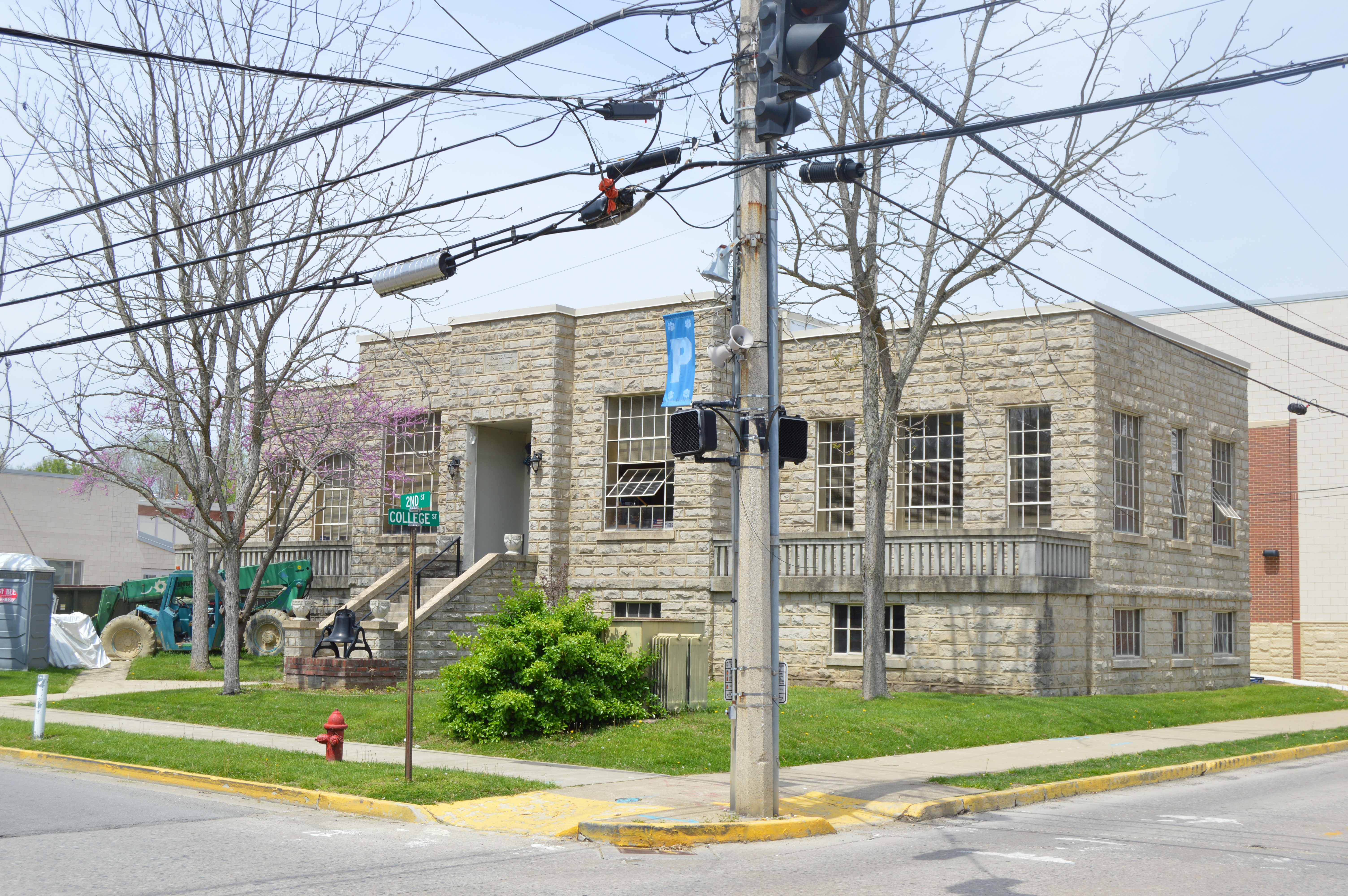 Front and eastern end of the former Paintsville Public Library, located on the northwestern corner of the junction of Second and College Streets in Paintsville, Kentucky, United States. Built in 1934, it is listed on the National Register of Historic Places.